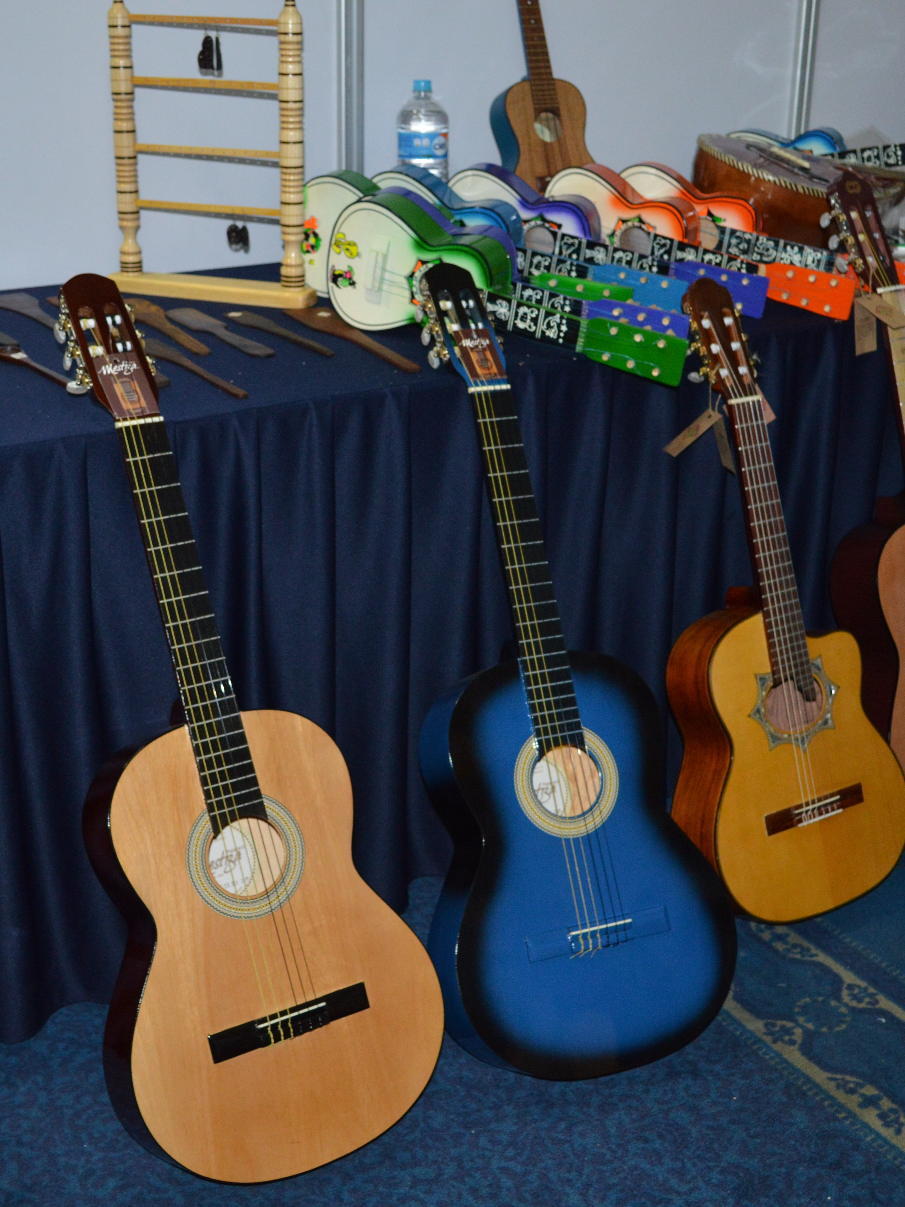 Guitars made in Paracho, Michoacán at the Expo de Los Pueblos Indígenas in Mexico City